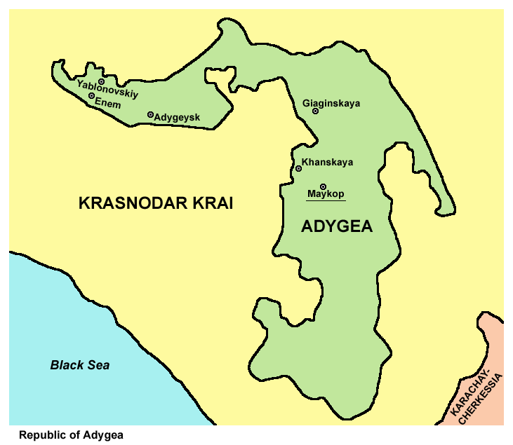 Map of the Republic of Adygea.